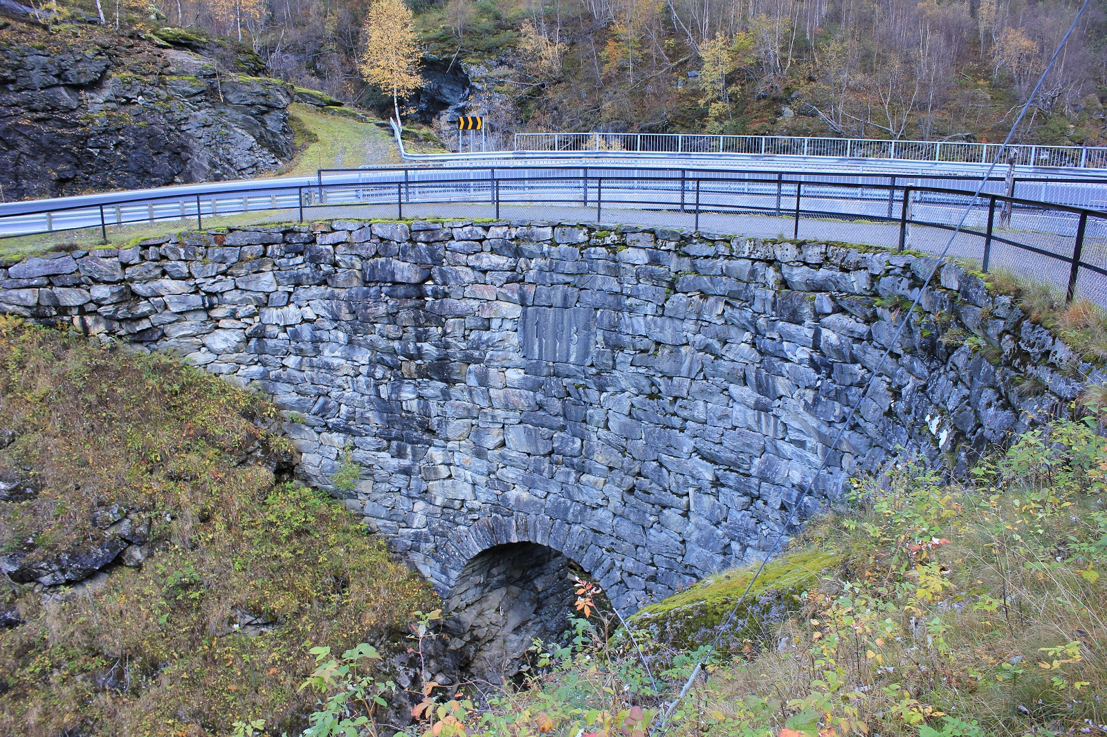 Jøl bridge at Strynefjellet (right view)